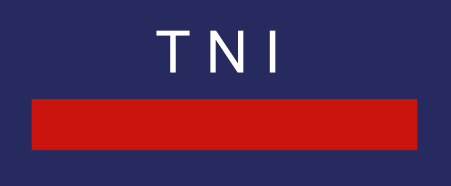 Second Airman insignia that used on daily uniforms of Indonesian Air Force